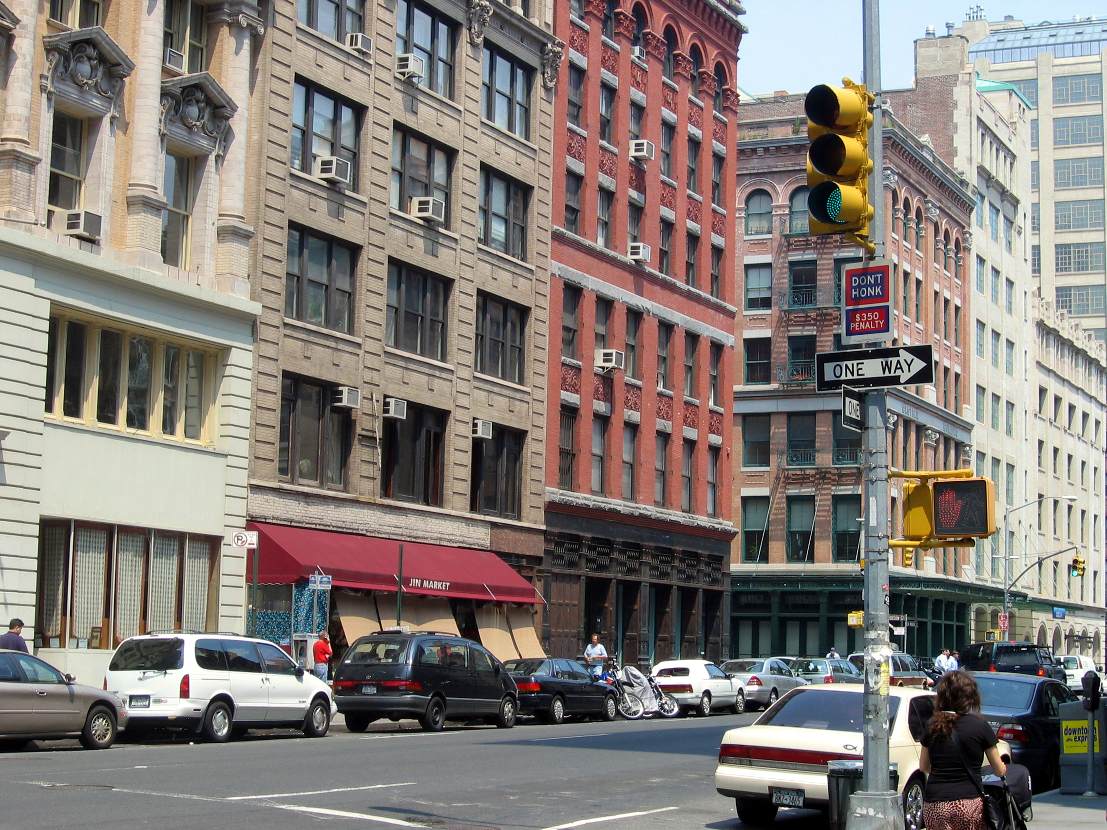 Looking north from Franklin Street up Hudson Street in TriBeCa.